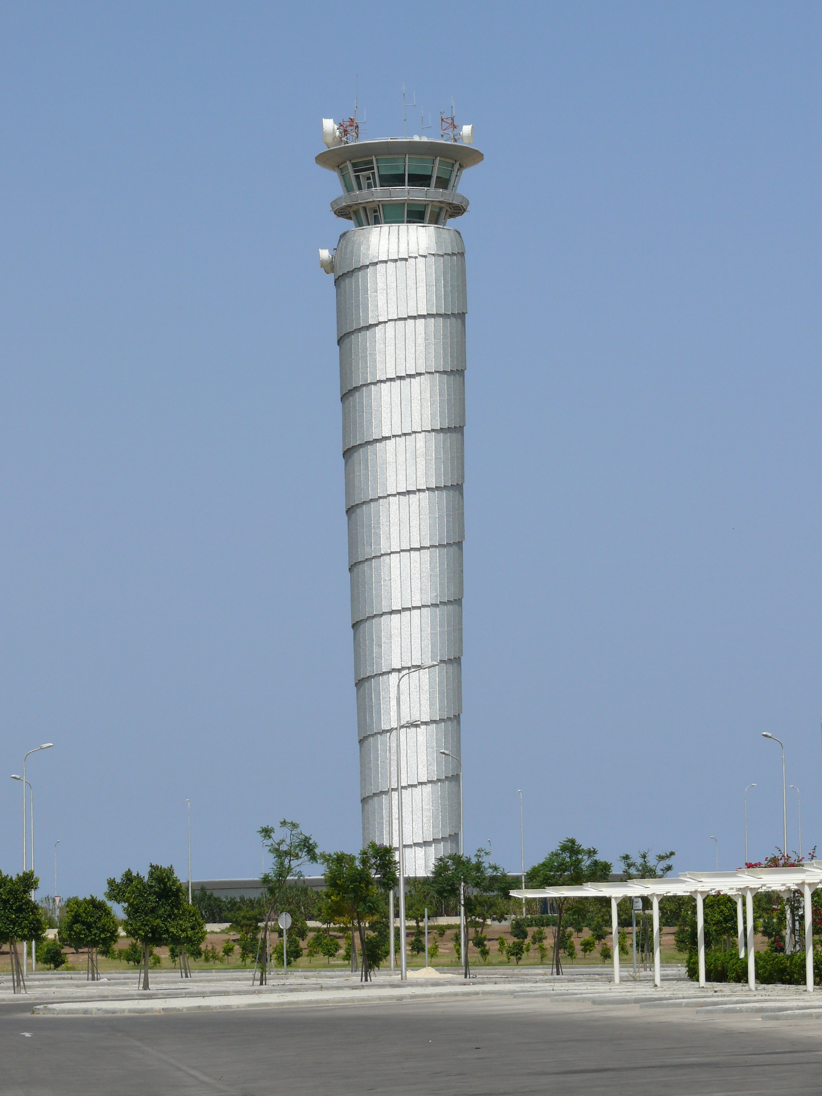 Enfidha – Hammamet International Airport control tower.